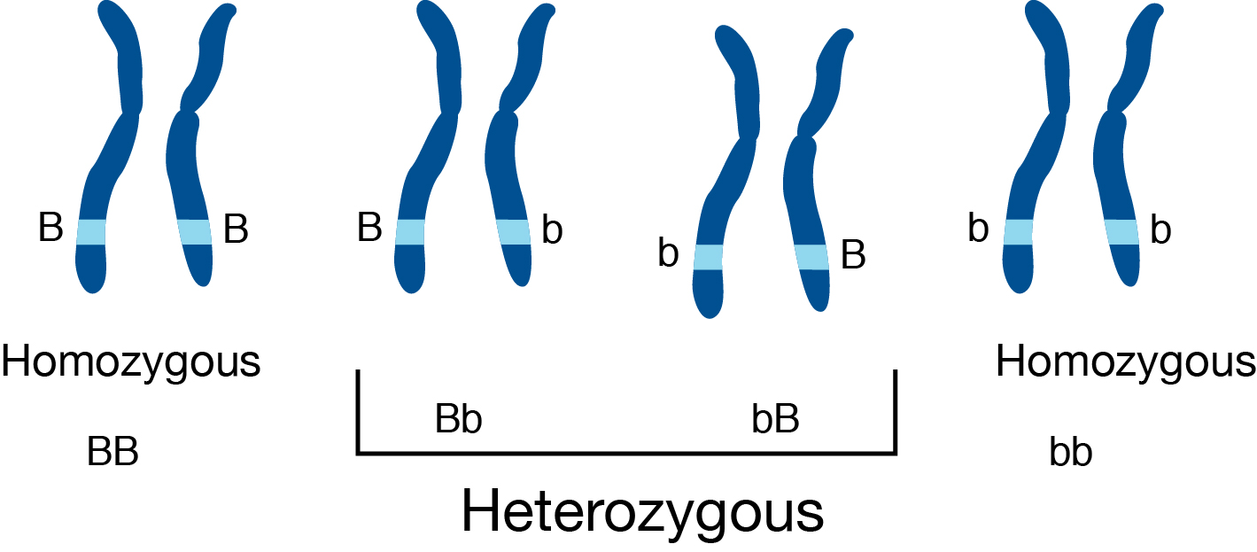 Heterozygous refers to having inherited different forms of a particular gene from each parent. A heterozygous genotype stands in contrast to a homozygous genotype, where an individual inherits identical forms of a particular gene from each parent.